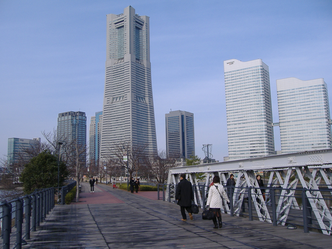 "Kishamichi Promenade" (Yokohama,Japan)